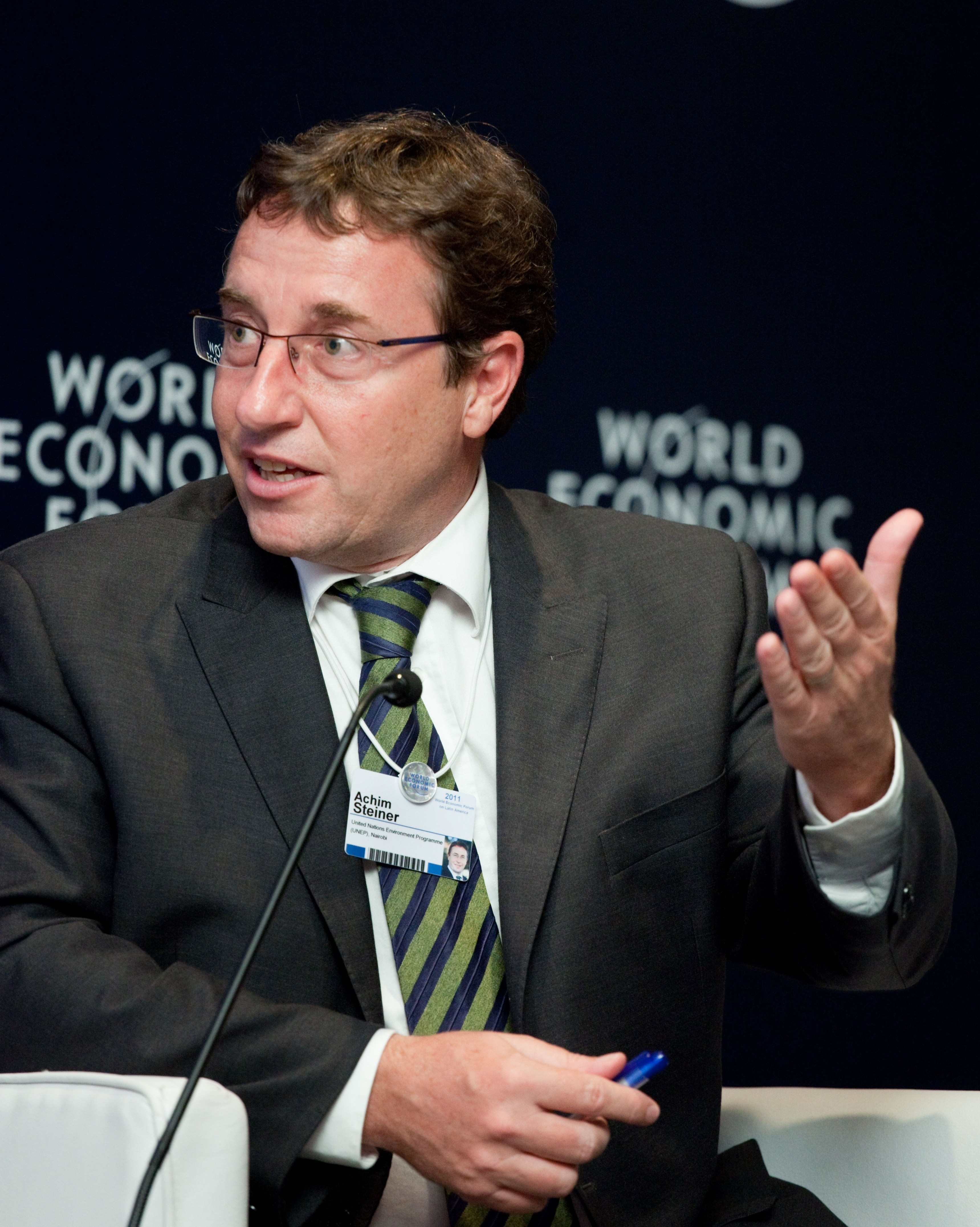 RIO DE JANEIRO/BRAZIL, 28APR11 - Achim Steiner, Executive Director, United Nations Environment Programme (UNEP), Nairobi, captured during the World Economic Forum on Latin America in Rio de Janeiro, Brazil, April 28, 2011. Copyright World Economic Forum ( by Bel Pedrosa